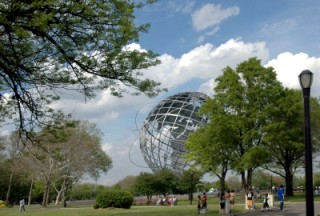 1964 World's Fair, NYC - The Unisphere, created by Gilmore D. Clarke.